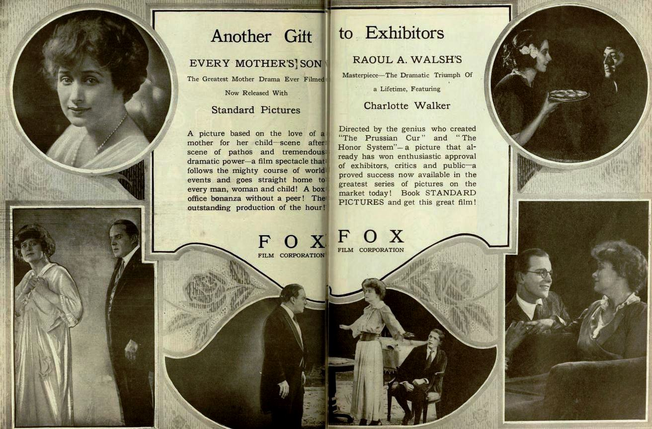 Ad for the American film Every Mother's Son (1918) with Charlotte Walker and Percy Standing, on pages 446 and 447 of the January 25, 1919 Moving Picture World.